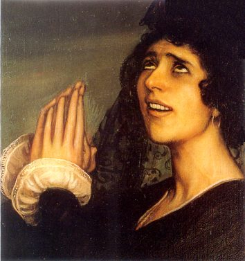 The Saeta (a part) by Julio Romero de Torres.